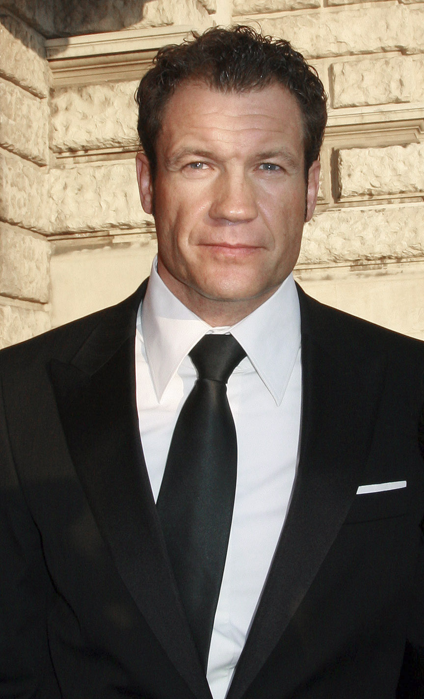 Actress Armin Assinger at the Romy TV awards (Hofburg Imperial Palace in Vienna)